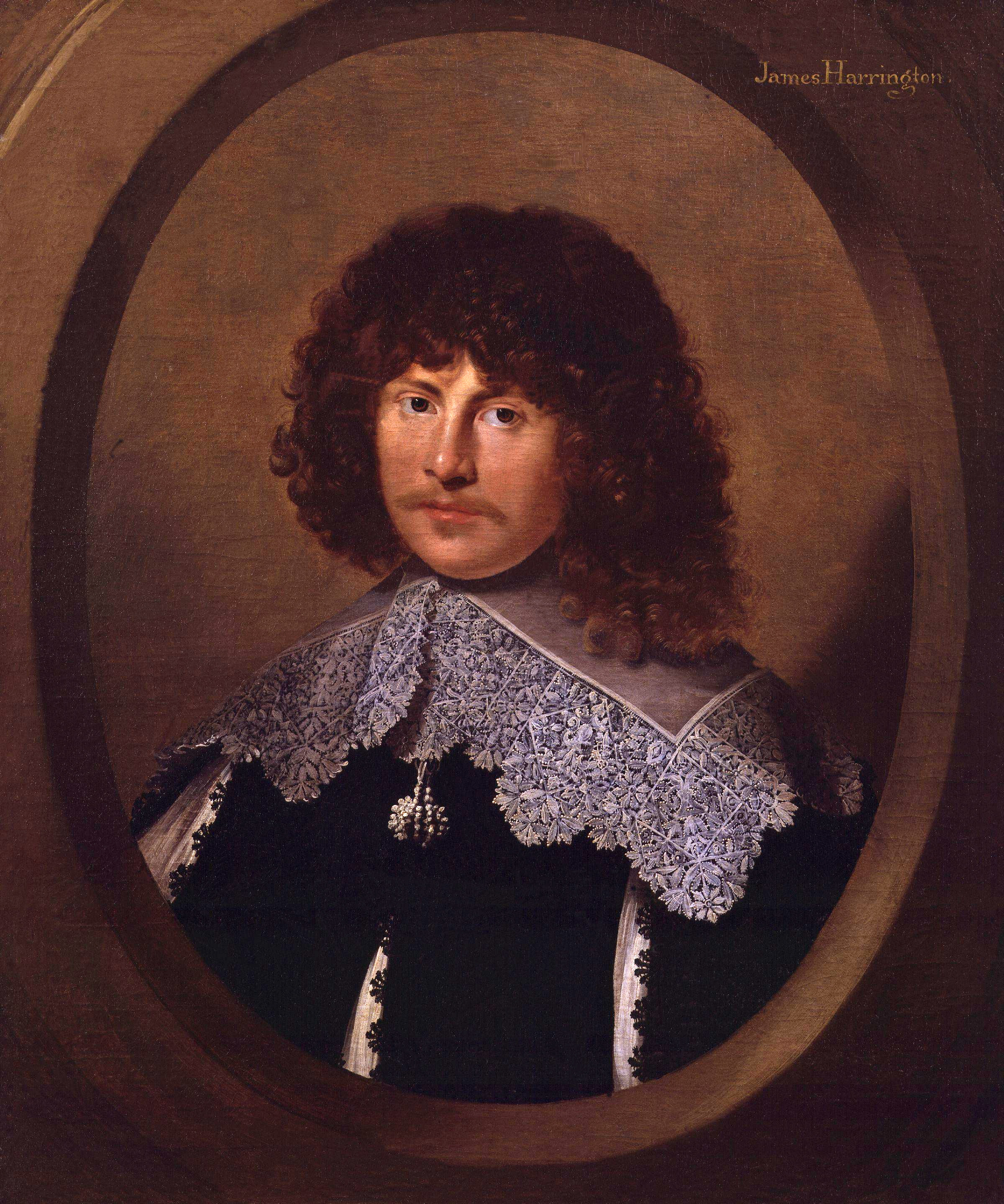 James Harrington, by unknown artist. All images in this batch are listed as "unknown author" by the NPG, who is diligent in researching authors, and was donated to the NPG before 1939 according to their website.